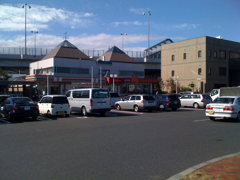 Shuto-Expressway Yashio PA